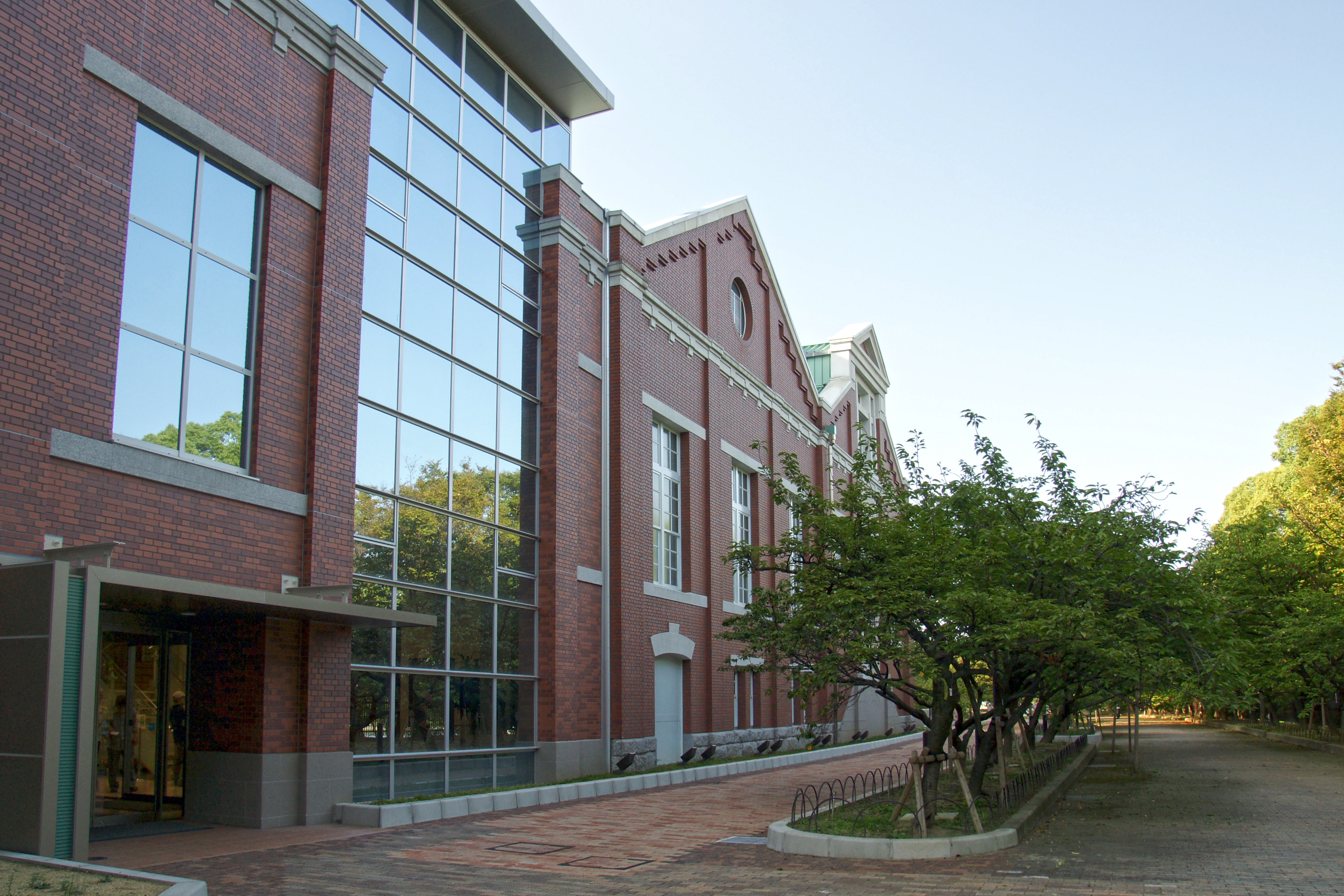 Mint Museum in Osaka, Osaka prefecture, Japan.